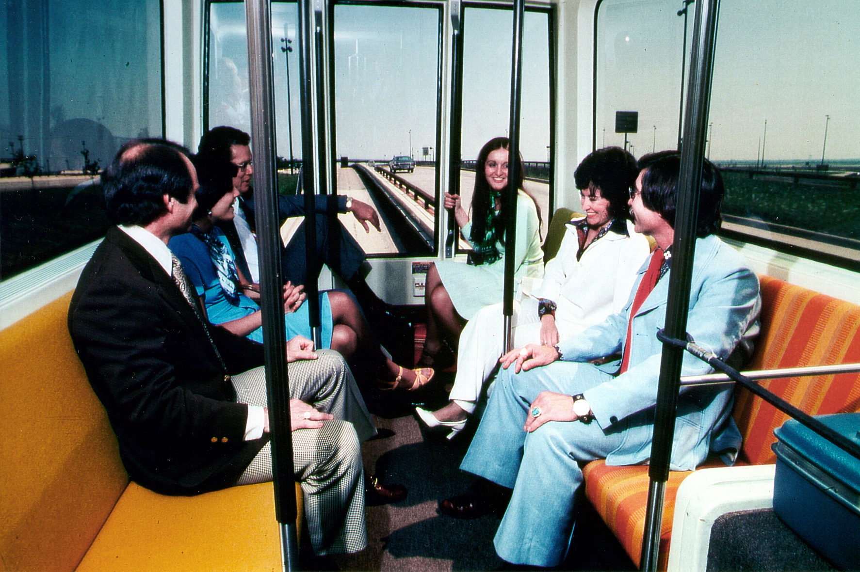 Airtrans Vehicle Interior